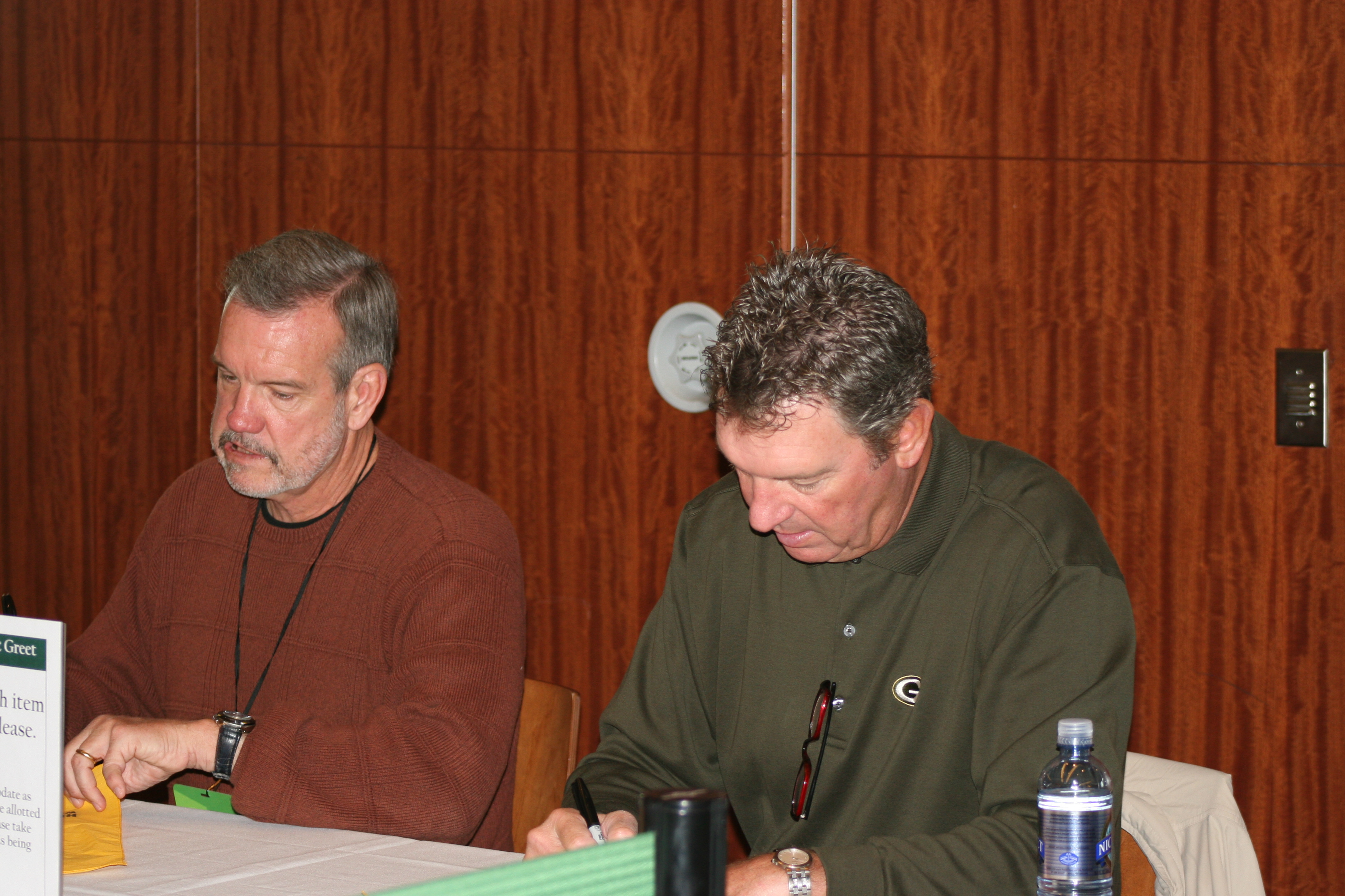 Signed a football for us Former Green Bay Packers- center Larry McCarren (left) and quarterback Lynn Dickey, signing autographs.